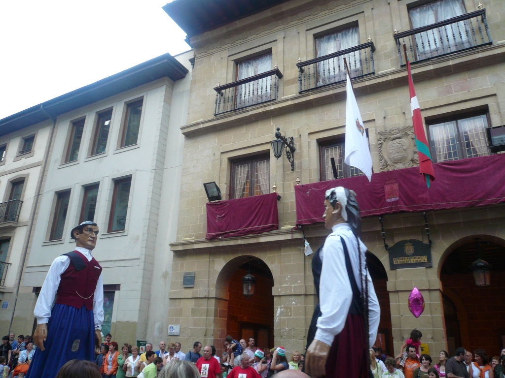 Orereta town hall.